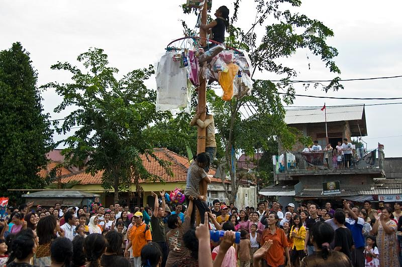 Panjat Pinang. The whole neighbourhood is out to celebrate.